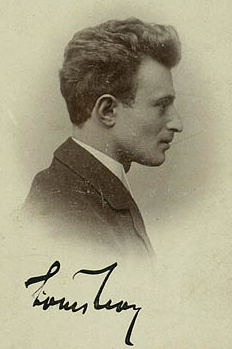 Danish writer Louis Levy